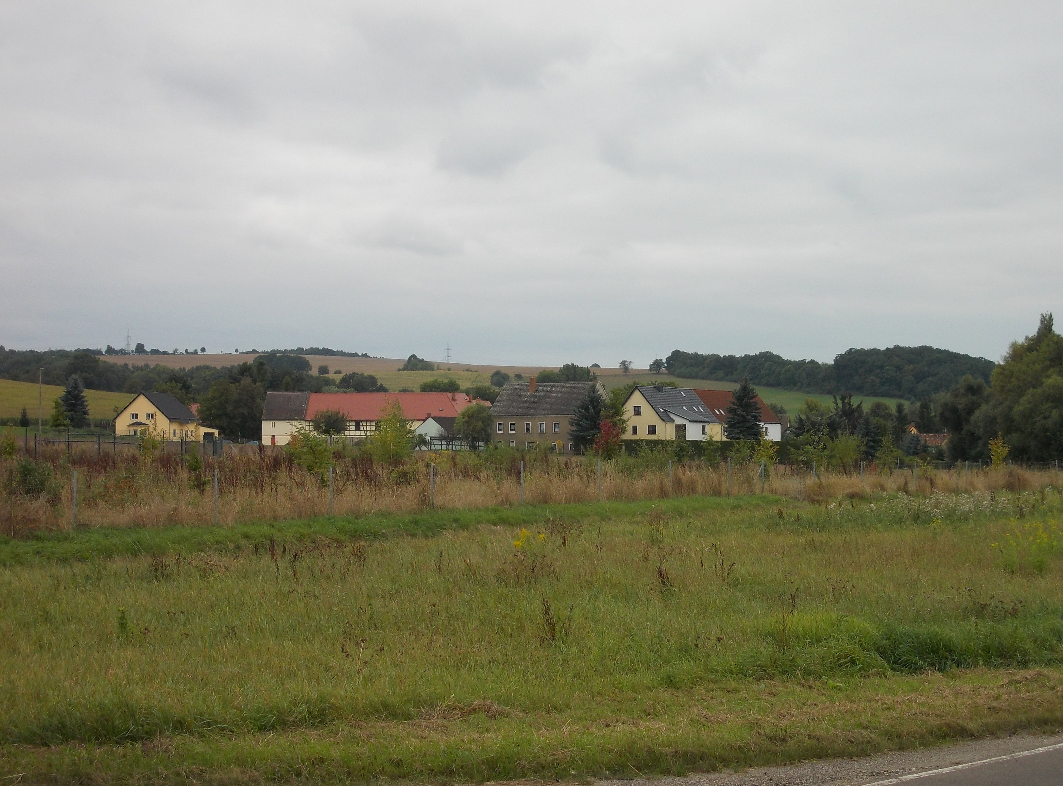 Grossosida (Gutenborn, district: Burgenlamdkreis, Saxony-anhalt) from the north-east